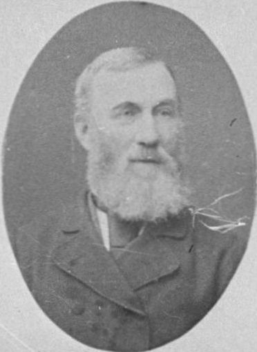 Portrait taken from montage depicting members of the 1882 House of Representatives.